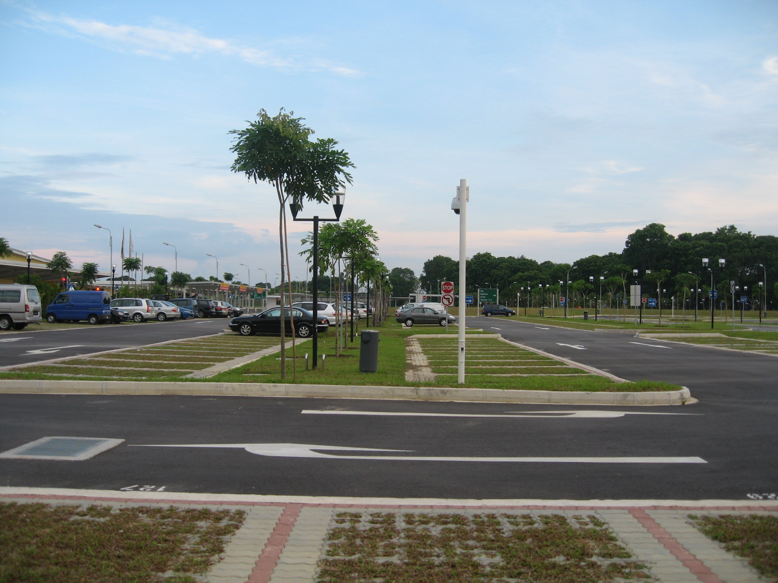 Singapore Changi Airport, Budget Terminal Carpark.